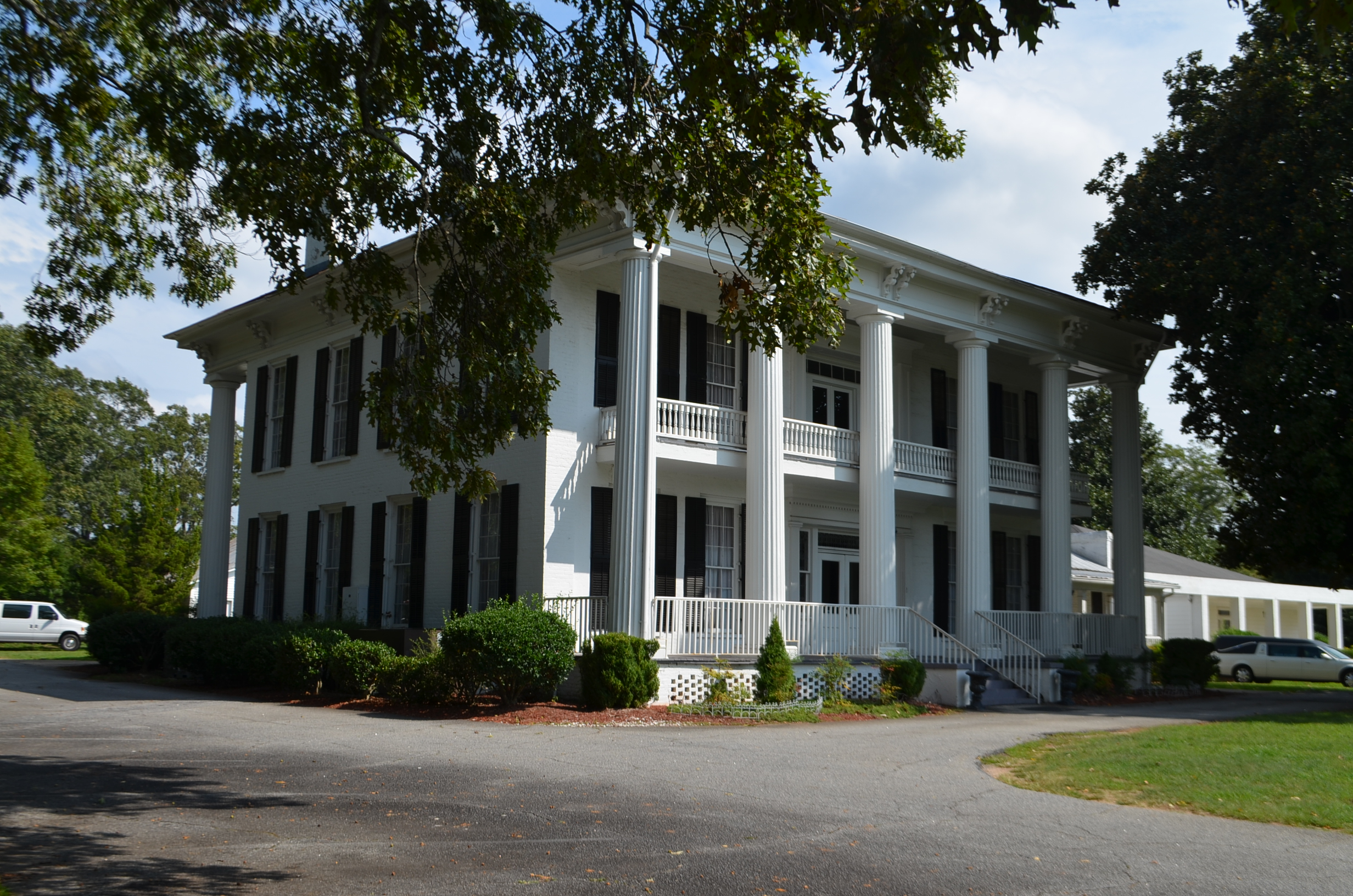 Willcoxon-Arnold House, One Bullsboro Dr. Newnan